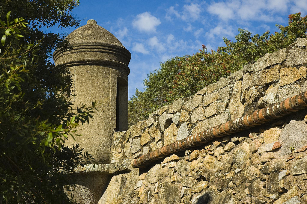 Forte São José in Florianópolis, Santa Catarina.